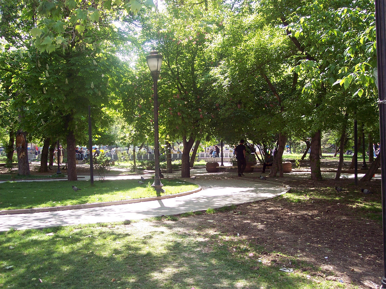 Güven Park, is a park in the middle of the city centre of Ankara.